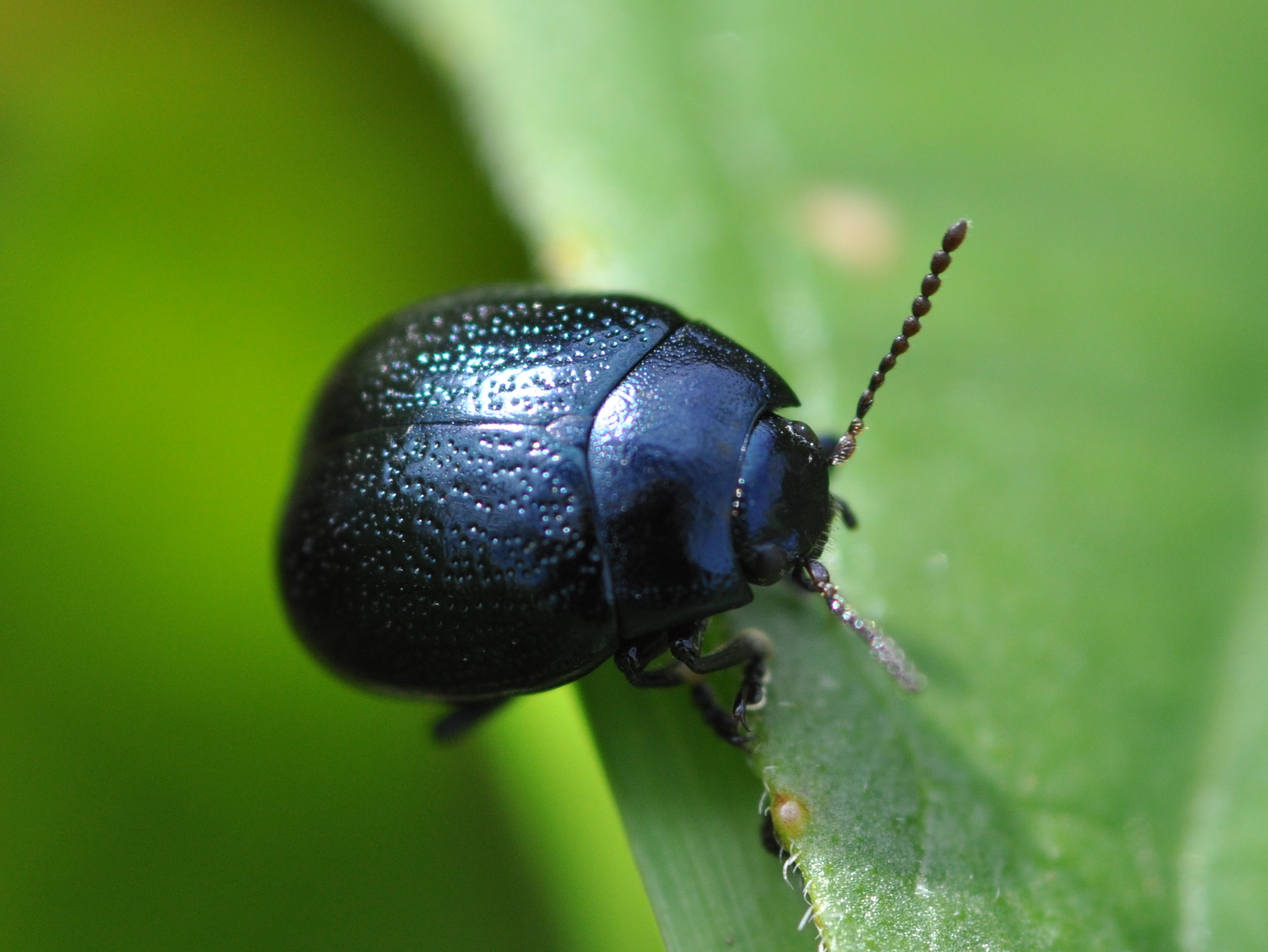 Plantain Leaf Beetle Chrysolina haemoptera in Bahrenfeld, Hamburg.